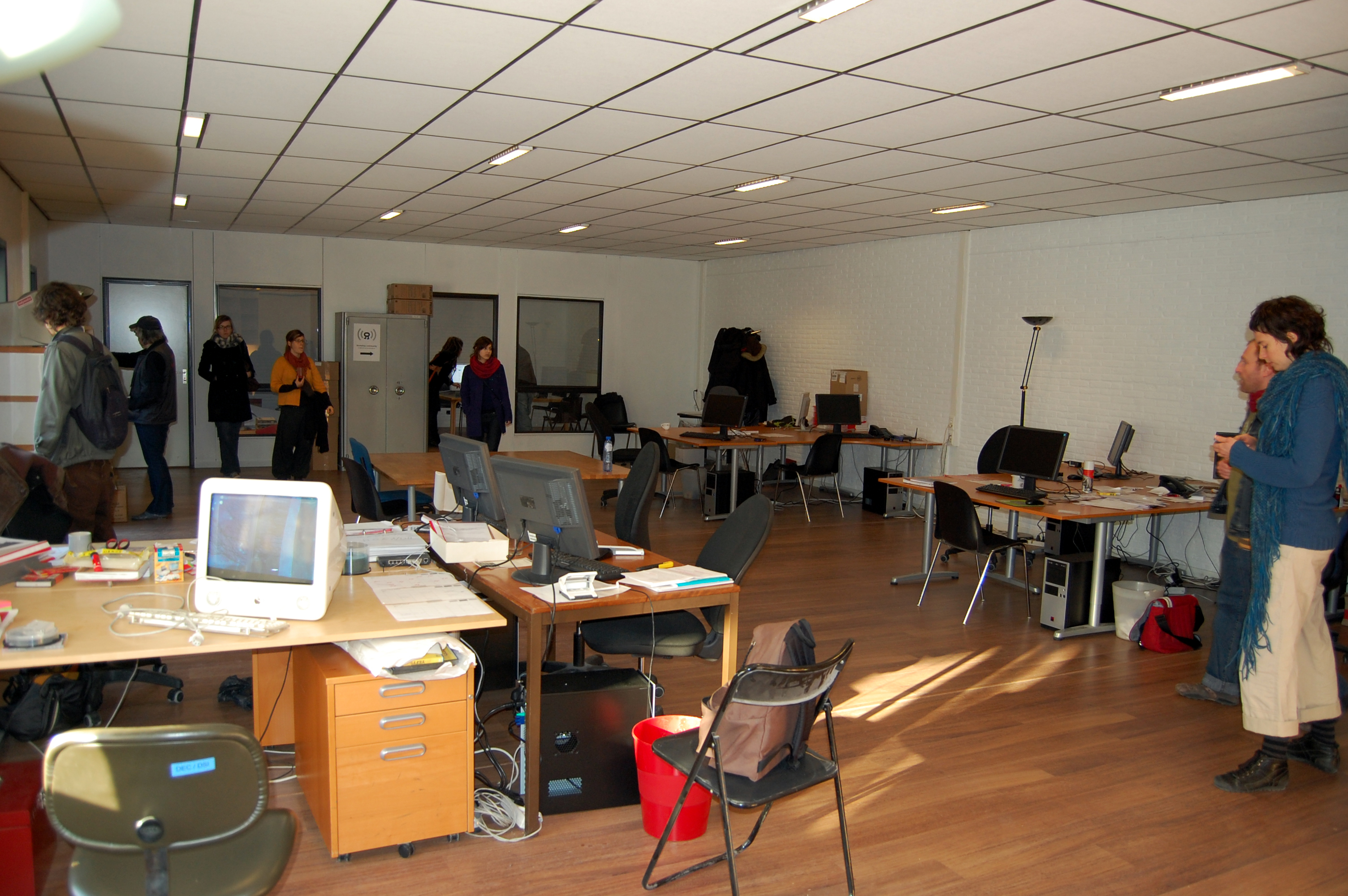 Brand new media centre at the Belgian Indymedia's headquarters in Brussels.